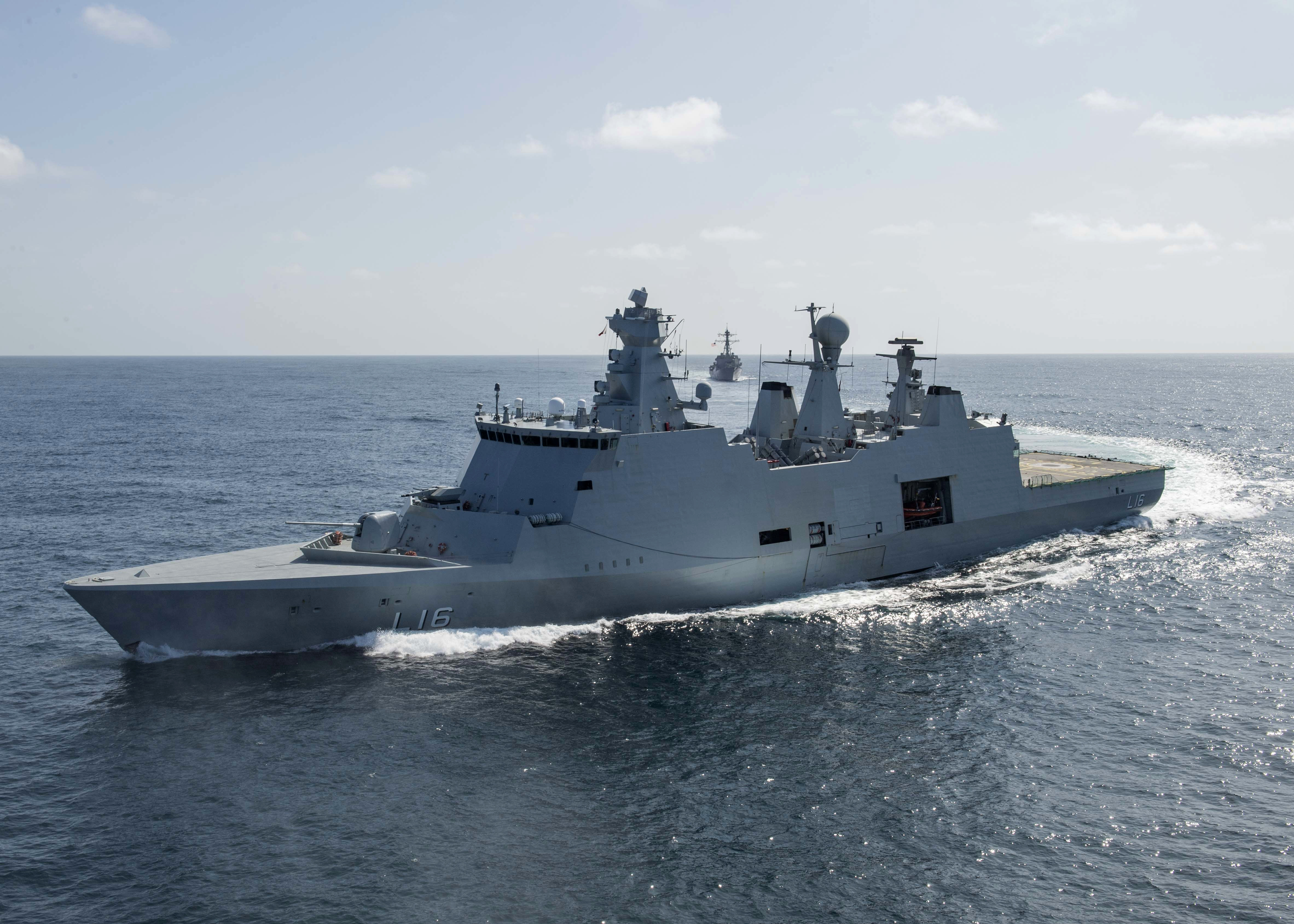 The Royal Danish Navy command and support ship KDM Absalon (L16) underway in the Atlantic Ocean off the coast of Greenland on 16 August 2019. The U.S. Navy guided-missile destroyer USS Gravely (DDG-107) is visible in the background.